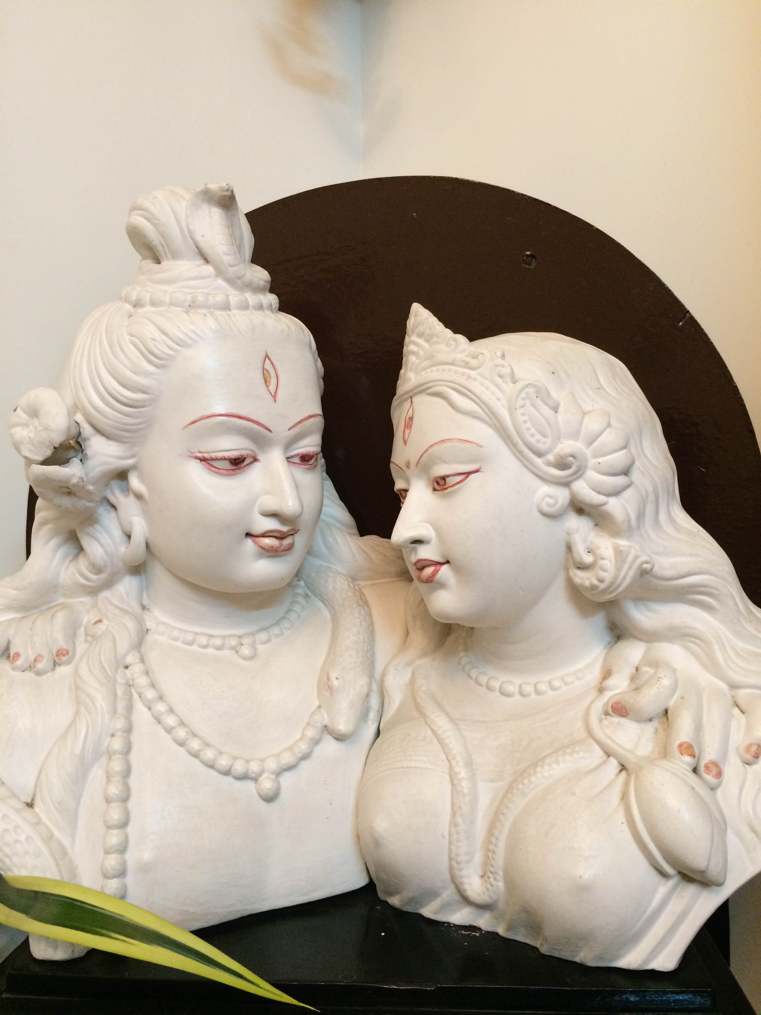 An idol of Shiv-Parvati the divine couple and the parents of Lord Ganesha and Lord Murugan